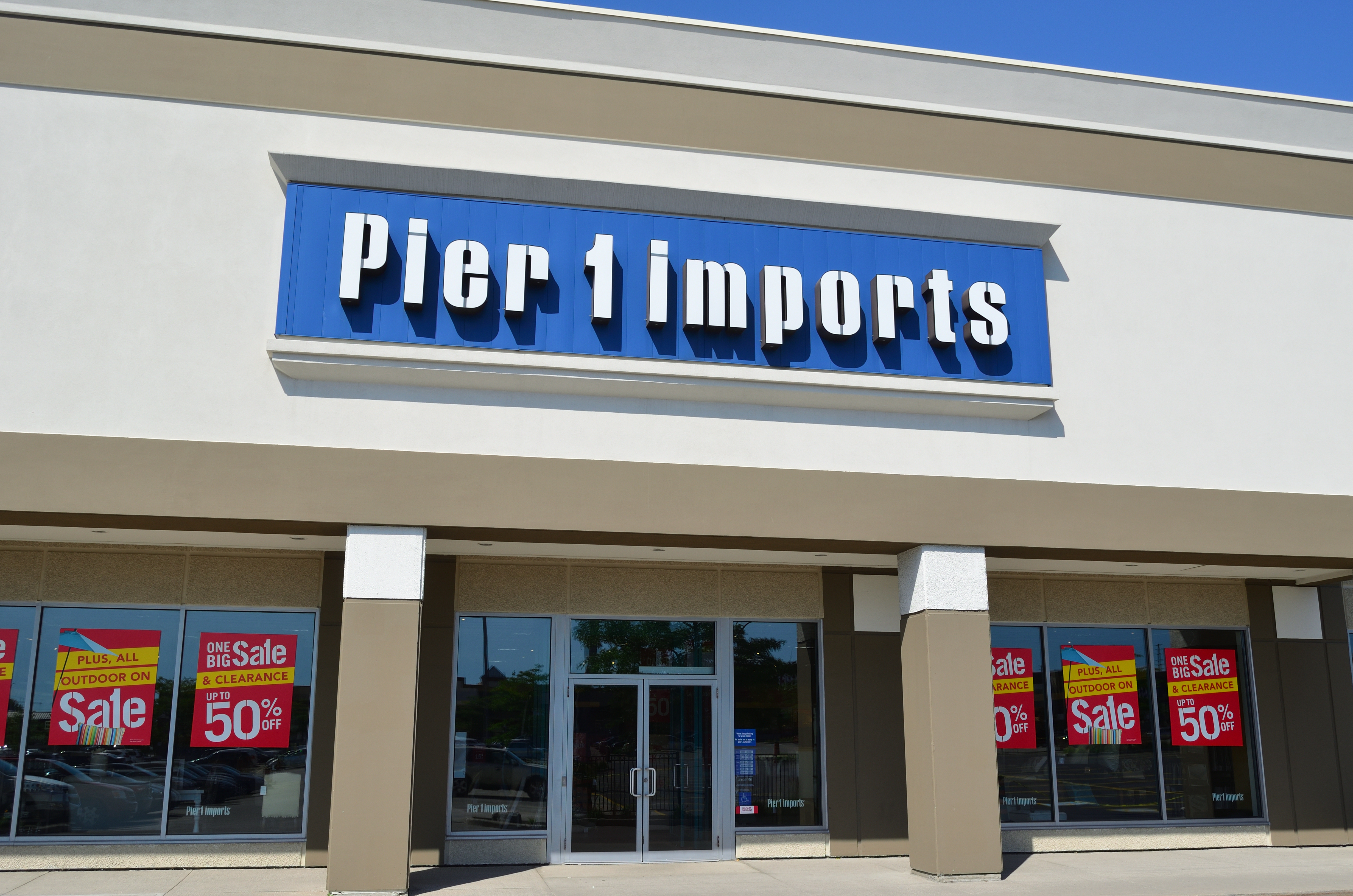 Pier 1 Imports in Markham